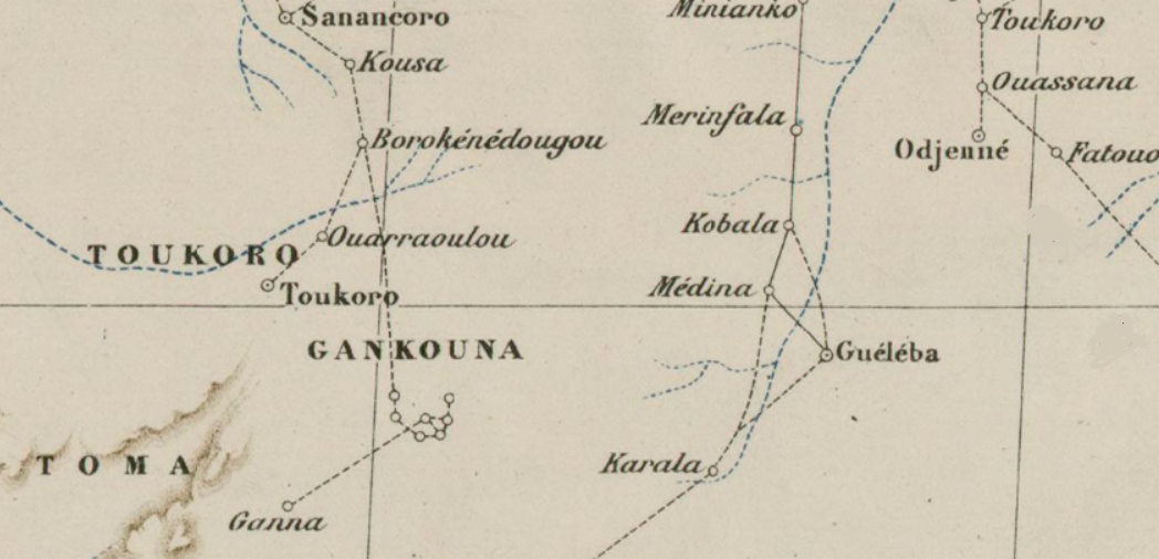 Map of Gankouna